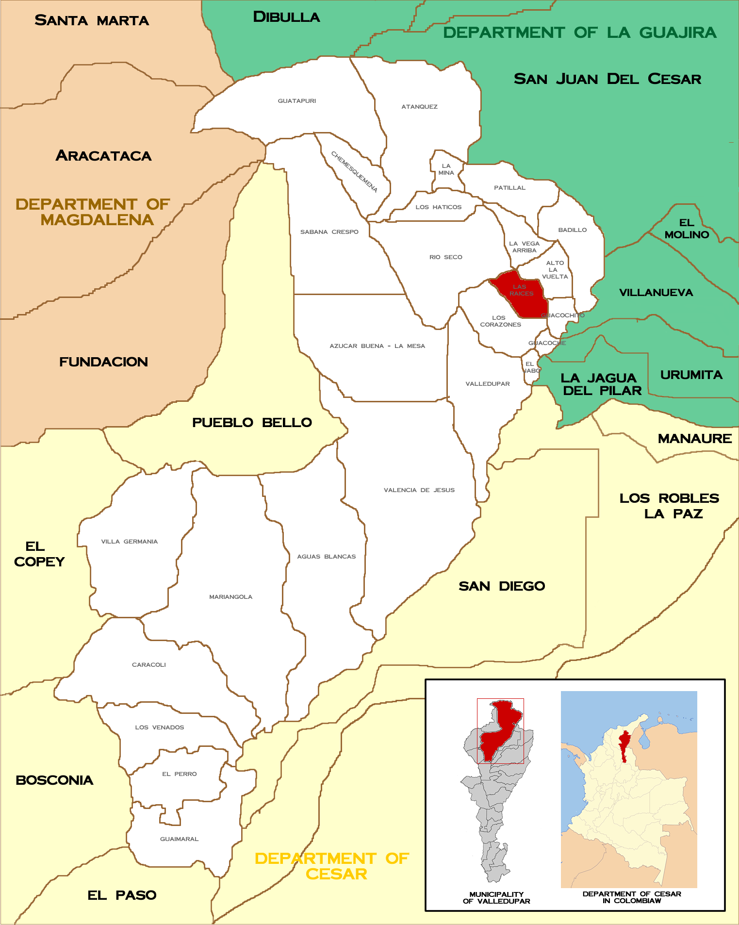 Map of Corregimientos of Valledupar, Las Raices